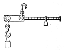 Безмен 19 века A 19th-century steelyard